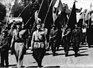 Il IX Korpus entra a Gorizia il 1 maggio 1945.